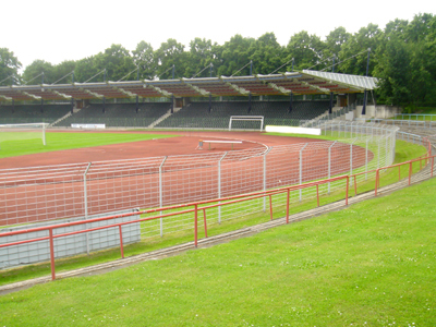 Matthias Goerigk selbst fotografiertes und bearbeitetes Foto (mit SONY Cybershot)